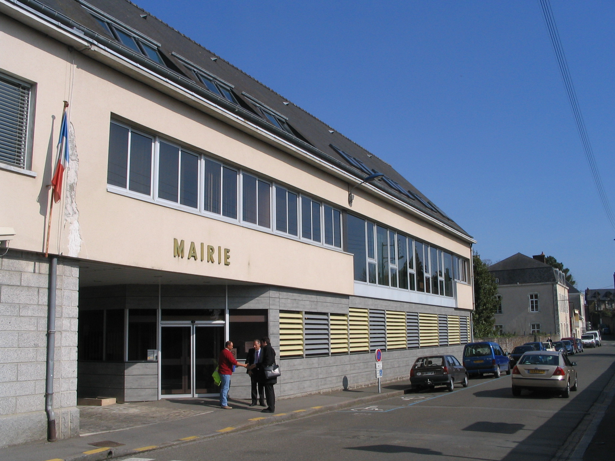 The town hall of Mayenne, Mayenne, France.